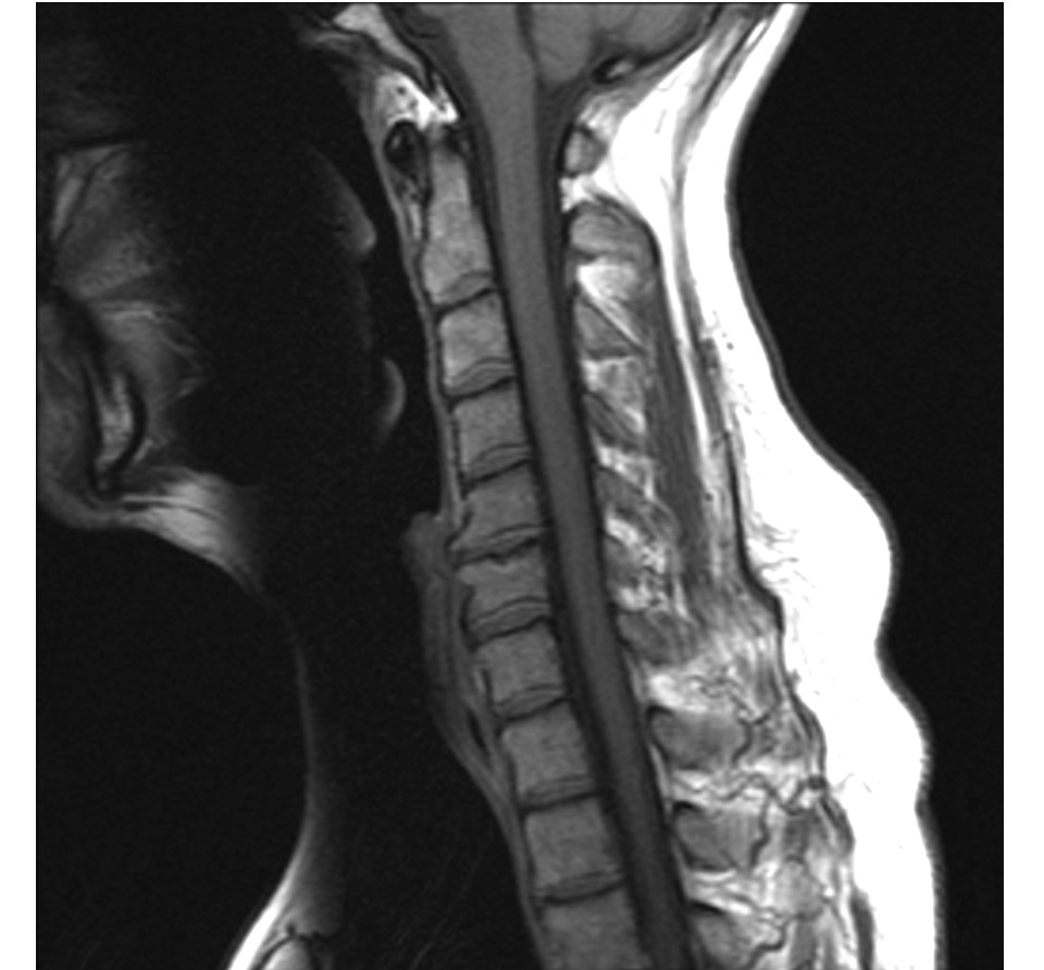 T1 weighted sagittal cervical spine MRI showing degenerative disc disease, osteophytes, and osteoarthritis of C5-C6. Loss of signal along airway (shadow) may be due to the use of a phased array coil used for signal enhancement.